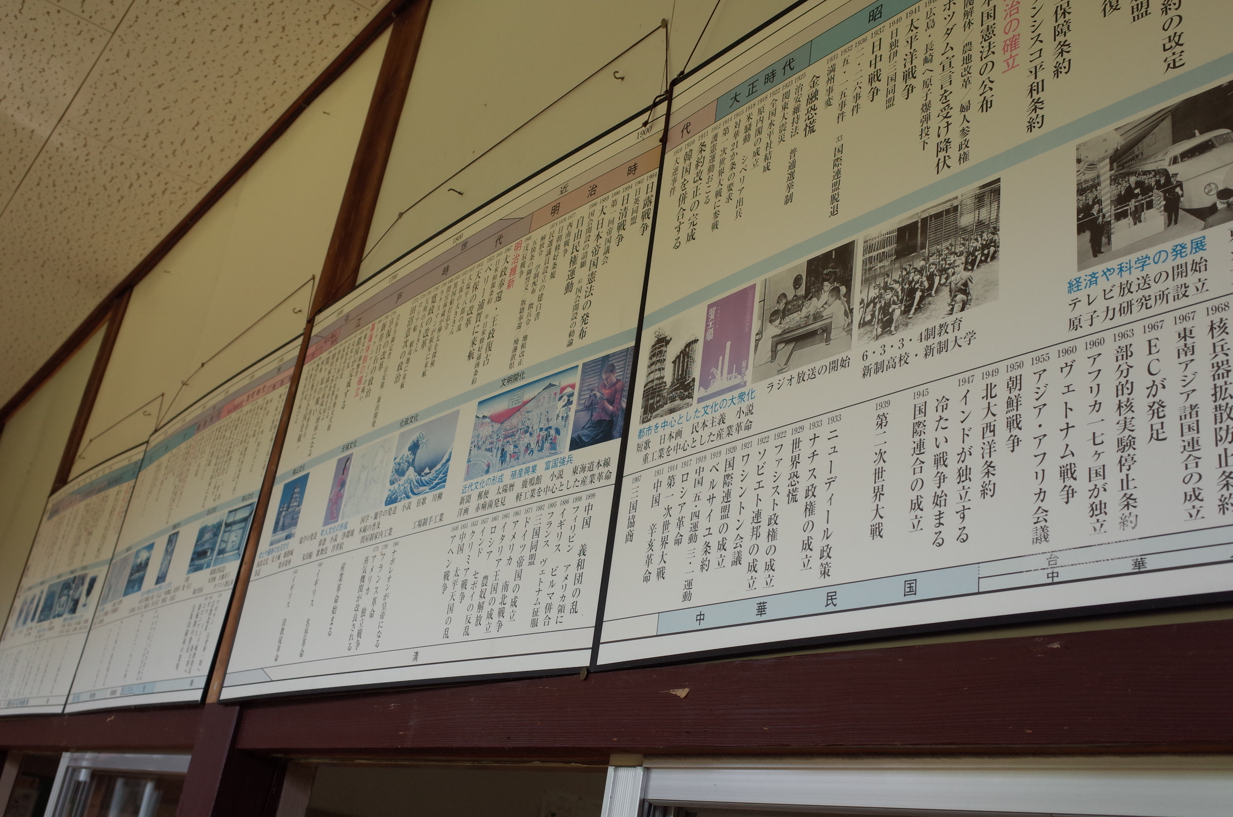 RICOH GR / Internal JPEG